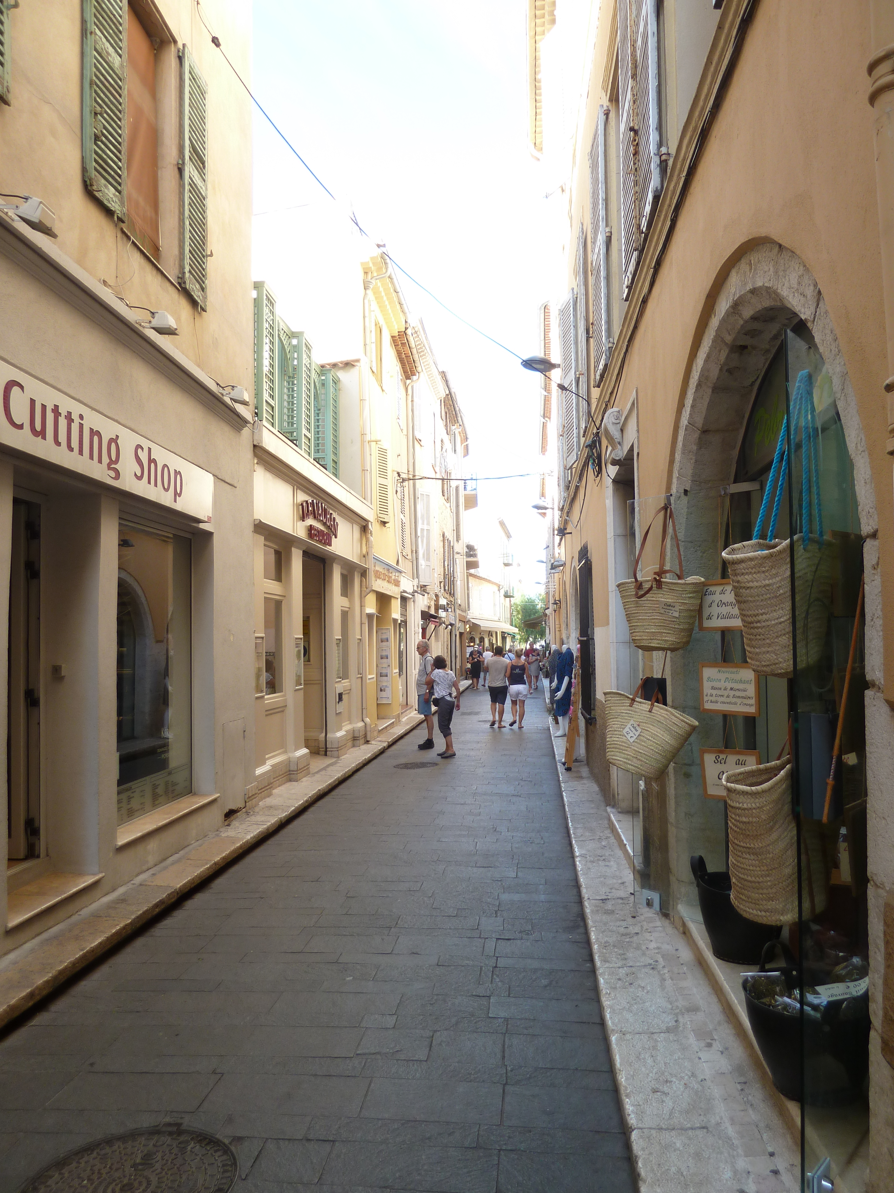 antibes